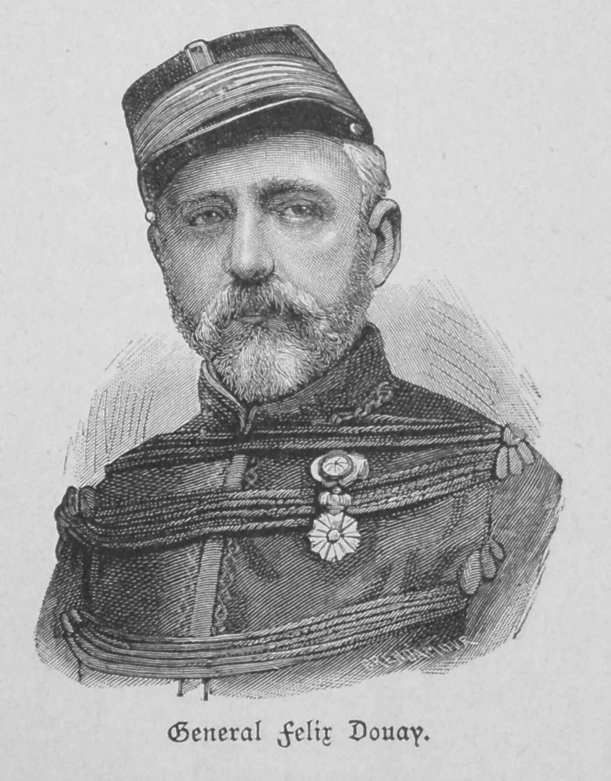 general Felix Douay